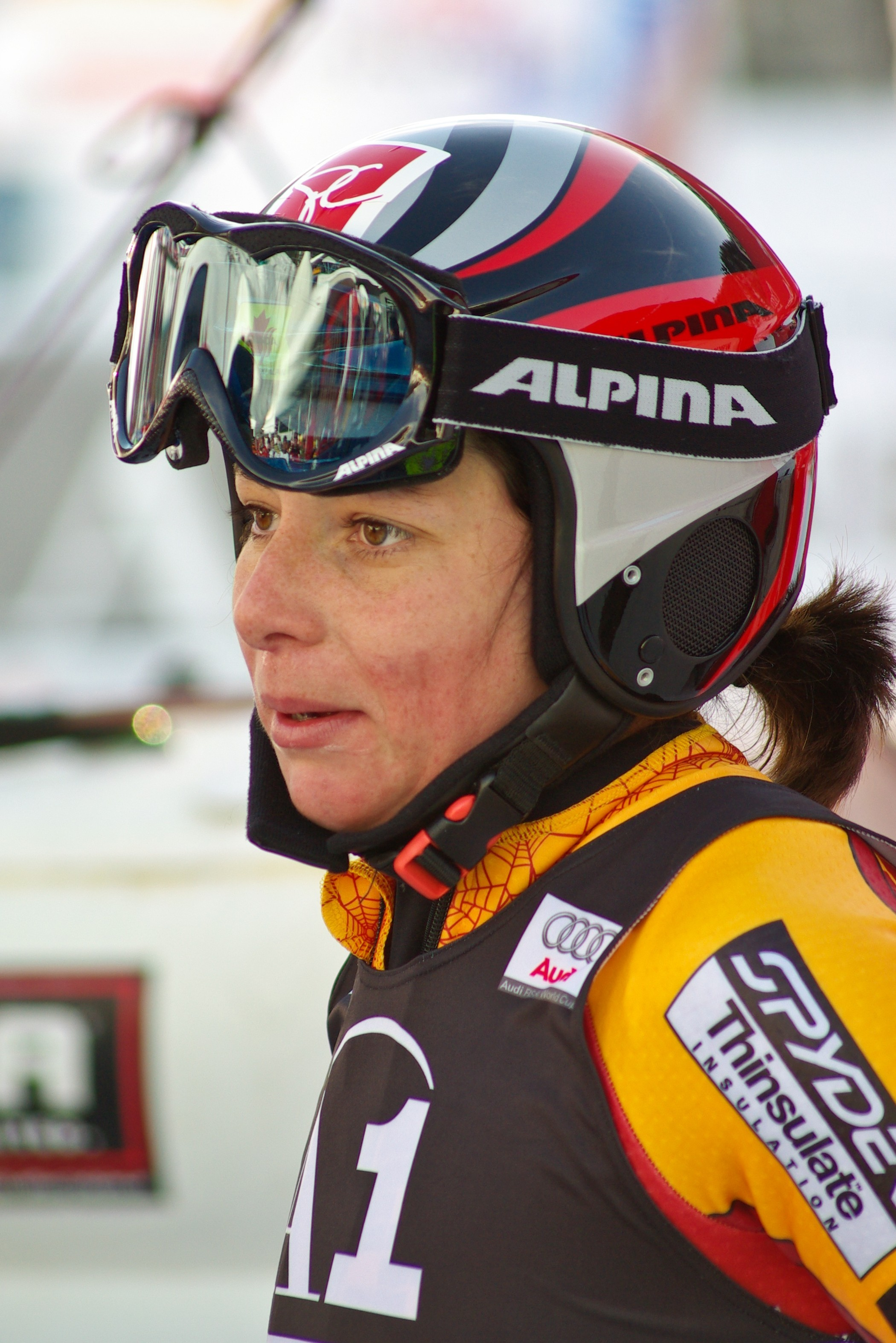 Canadian alpine skier Émilie Desforges after the downhill race of the super combined in Altenmarkt-Zauchensee (Austria) on 17 January 2009.